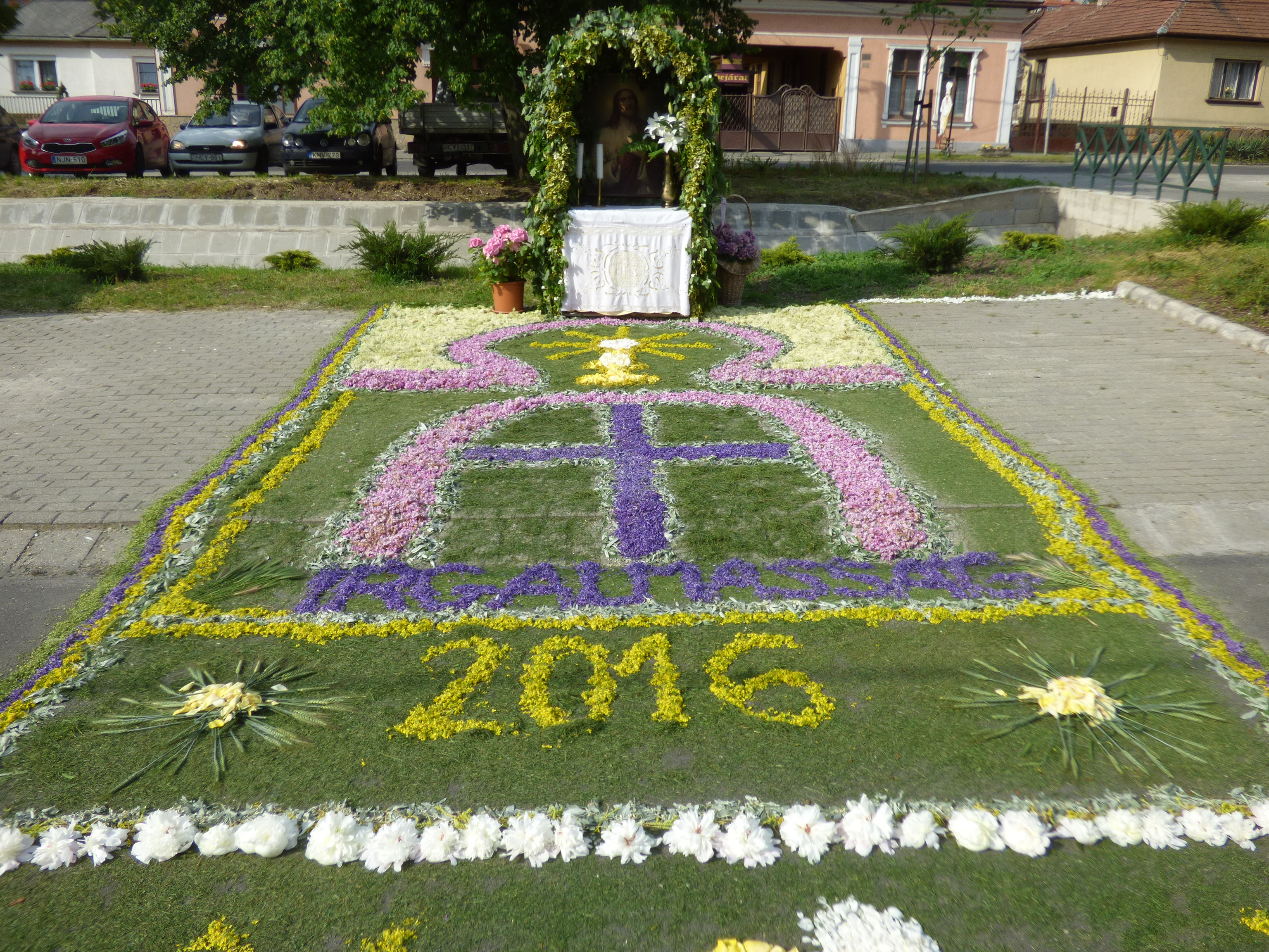 Úrnapi virágdíszítés Pilisszentivánon 2016-ban